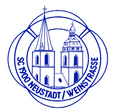 Logo of Schwimm-Club 1900 e.V. Neustadt / Weinstr.